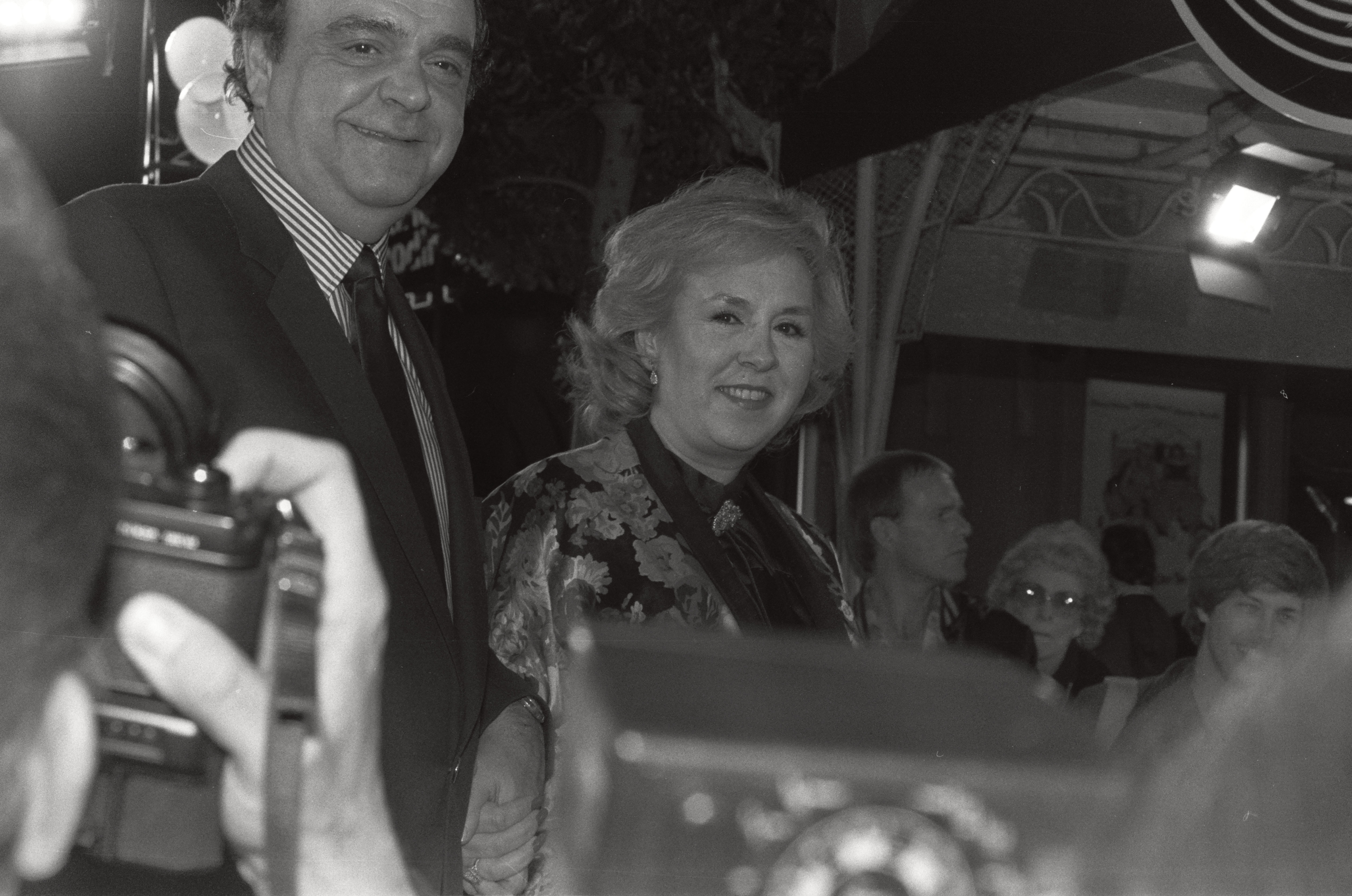 Photo taken at the premiere of the movie SEEMS LIKE OLD TIMES 12/10/80 - Permission granted to copy, publish or post but please credit "photo by Alan Light" if you can. Thanks.